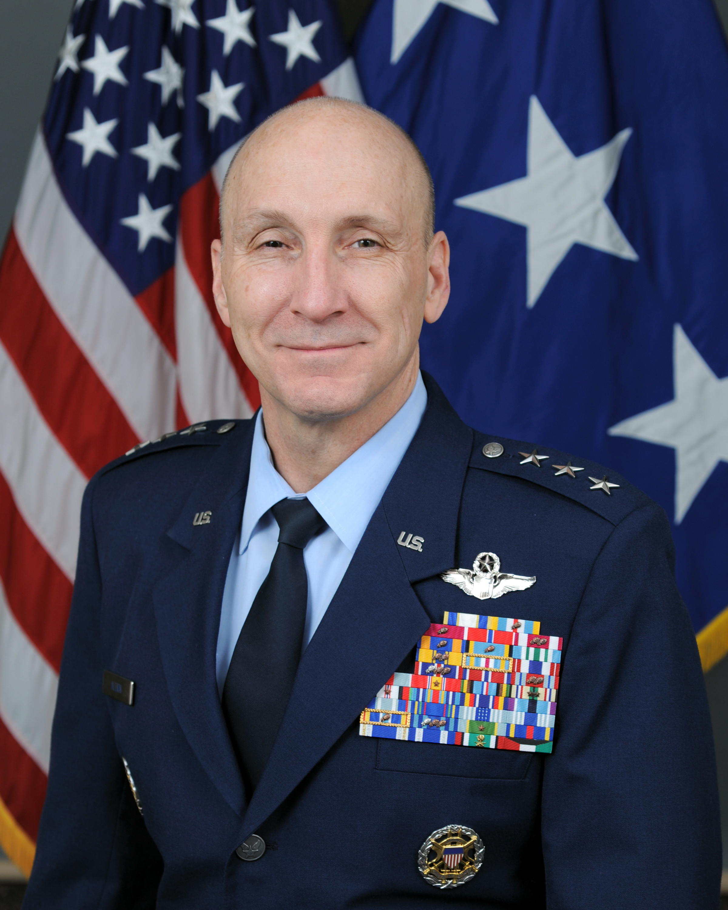 Lt. Gen. David W. Allvin, Director for Strategy, Plans and Policy, J5